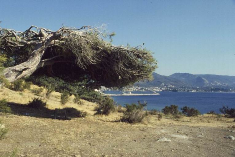 view of the Aegean Sea created by he:משתמש:בן הטבע